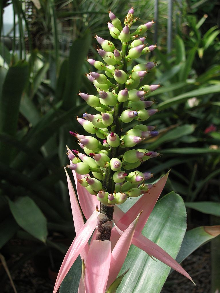 Aechmea castelnavii, in cultivation at the Botanical Garden of Heidelberg, Germany.